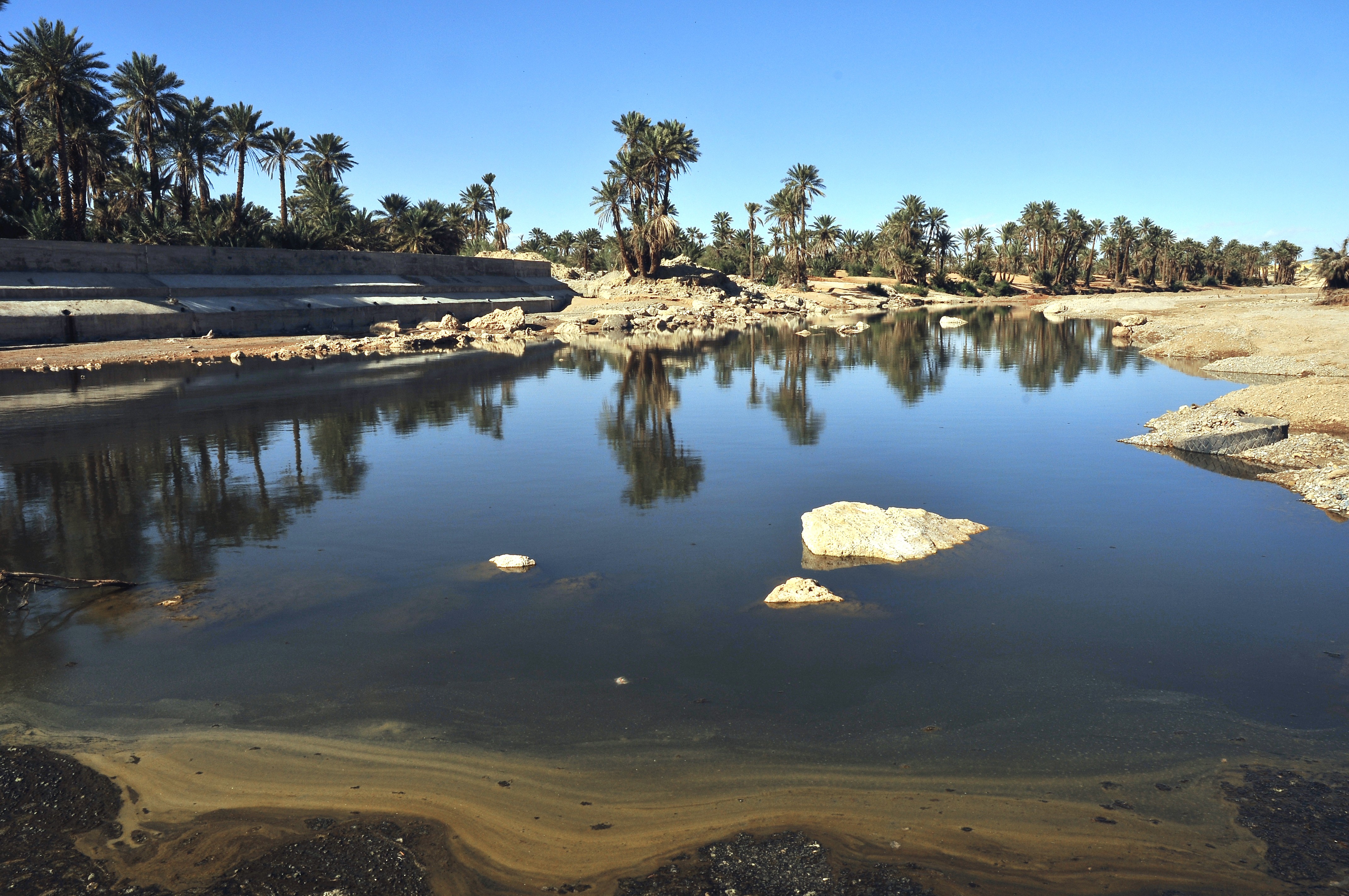 A section of the Wadi Bechar, with embankment works. Bechar, Algeria